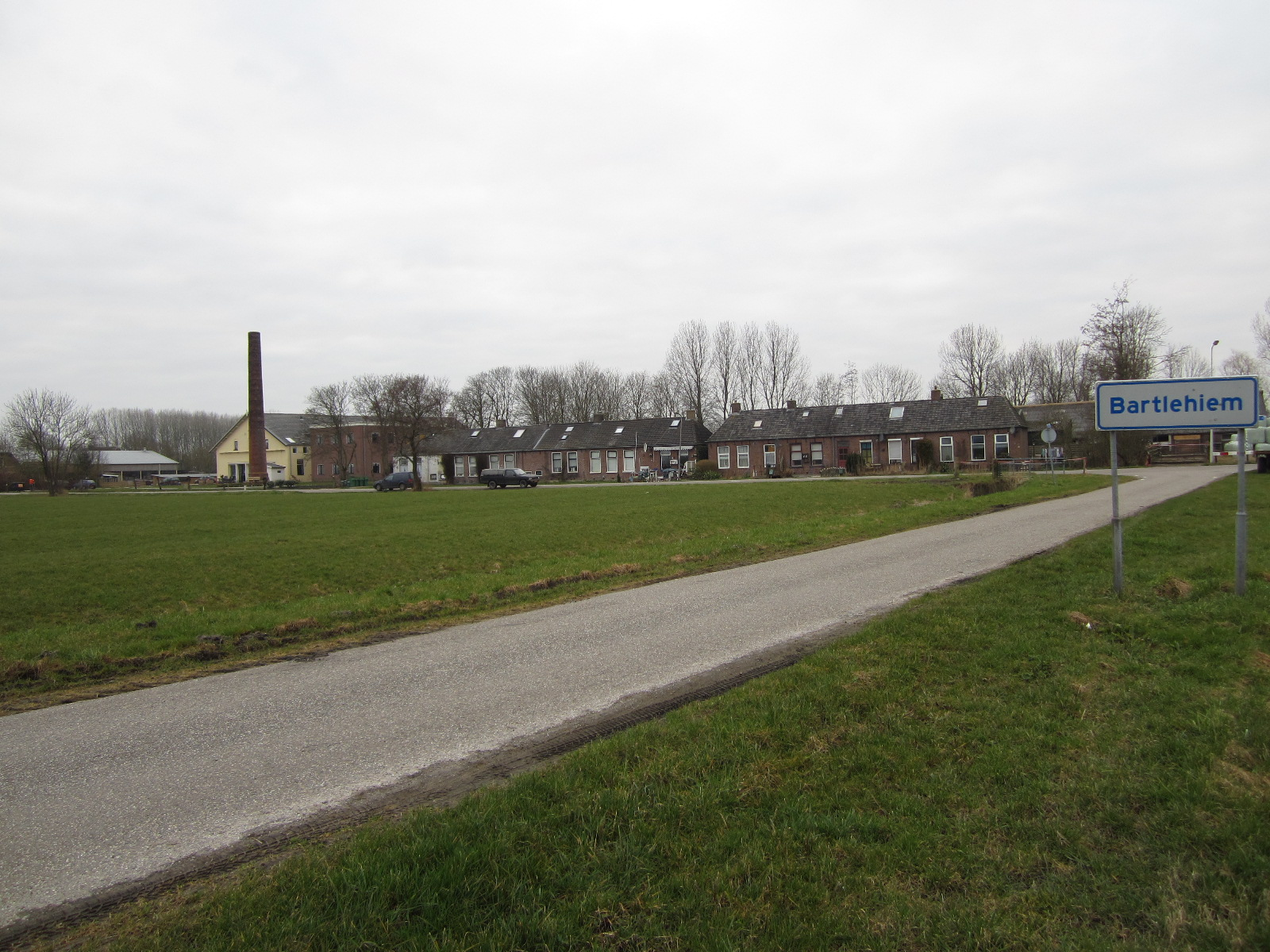 Bartlehiem (county Friesland, The Netherlands). Northern part with view on properties of the former dairy: chimney, old factory and workers dwellings.